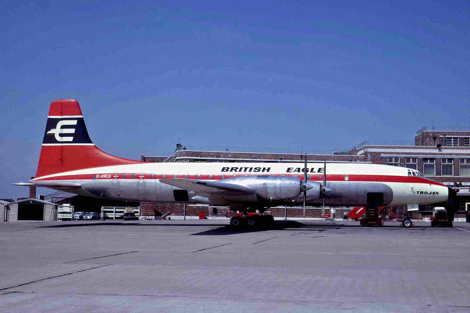 A picture of an airplane (name of it is on the file name).